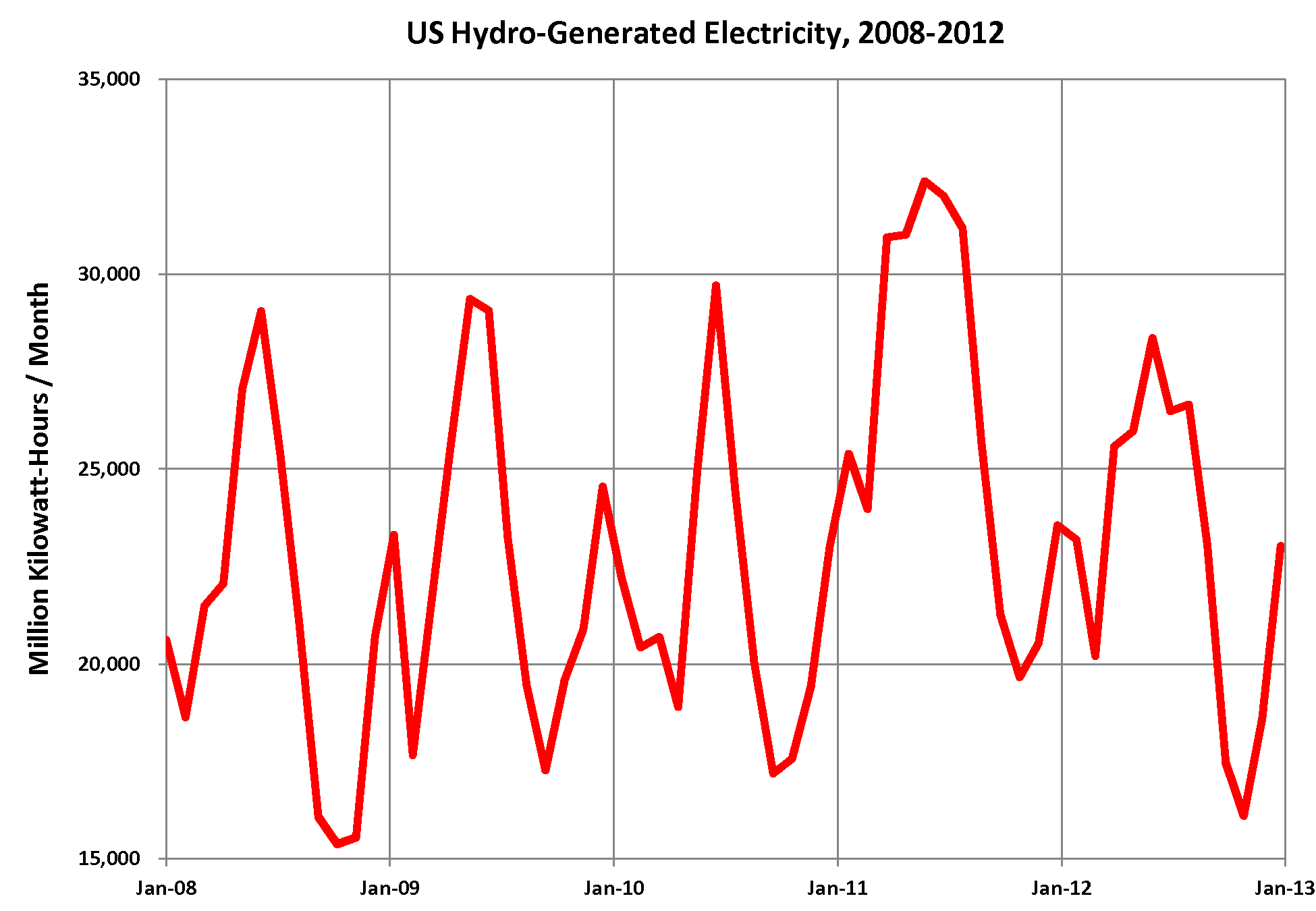 Monthly hydroelectric power generation in the US, 2008-2012. Hydroelectric power varies with seasonal stream flows.